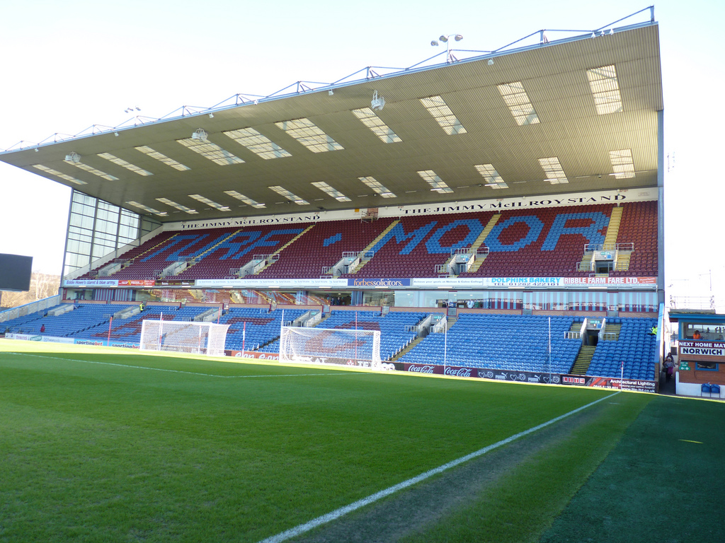 Jimmy Mac Stand